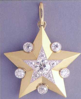 Russian rank insignia, here “Star of the Marshal – big” (OF10) for: Marshal of the Soviet Union 1940 – 1992 Admiral of the fleet of the Soviet Union since 1955 and Marshal of the Russian Federation since 1993.